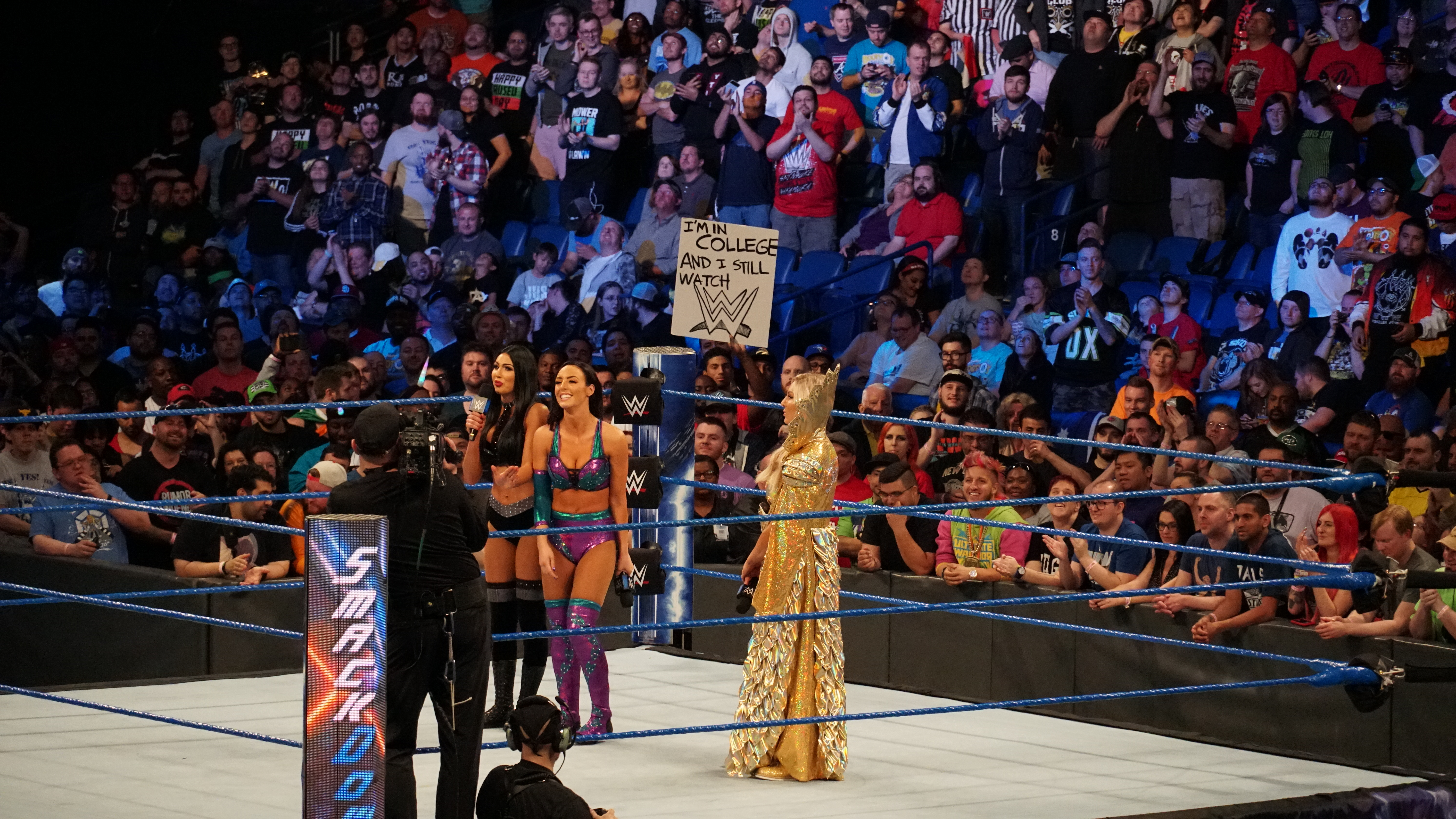 The IIconics interrupt Charlotte Flair in their SmackDown debut in April 2018.